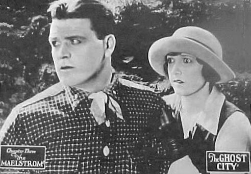 Lobby card for chapter 3 of the American western film serial The Ghost City (1923).